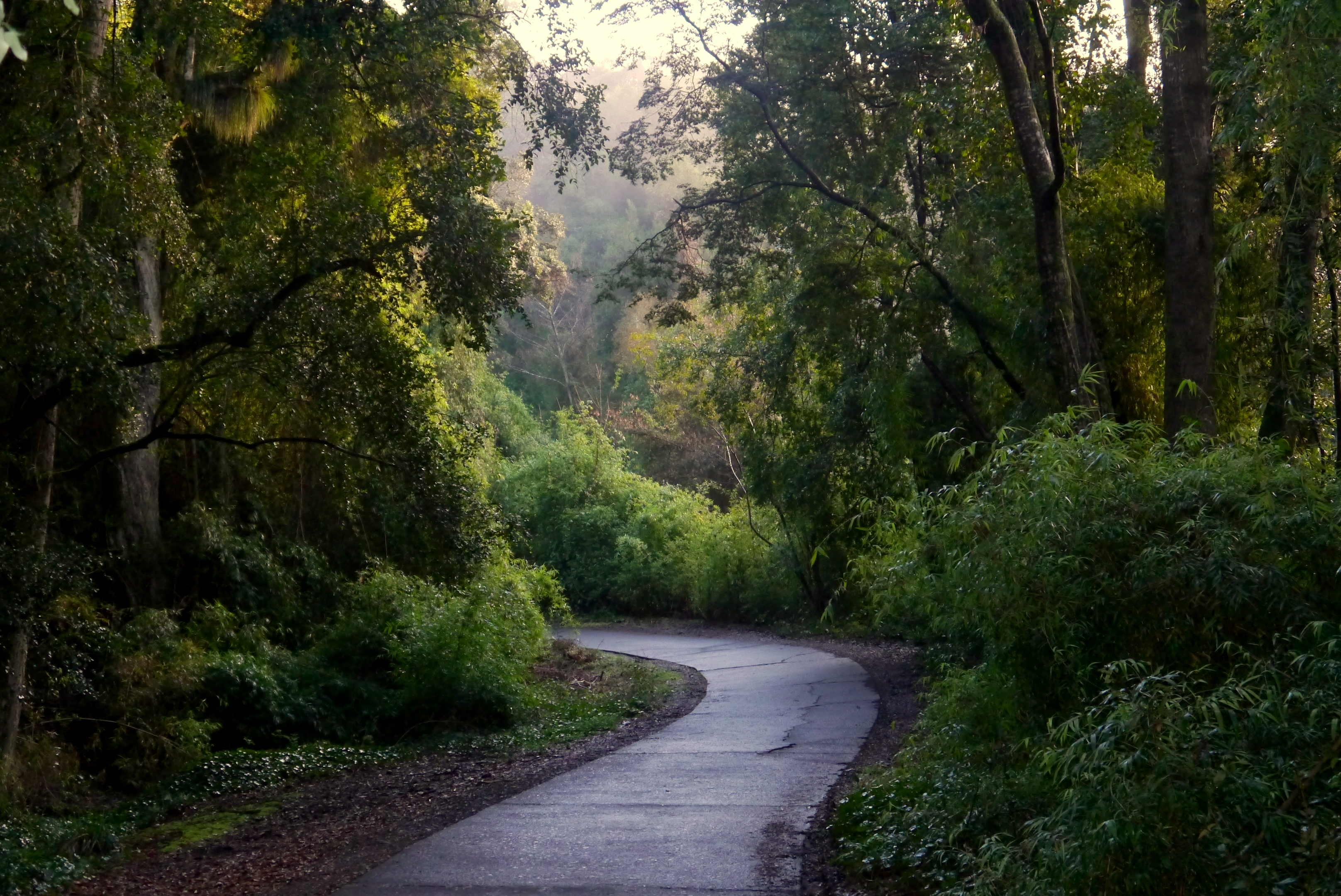 Path in Cerro Ñielol natural monument, Temuco, Araucania region, Chile.